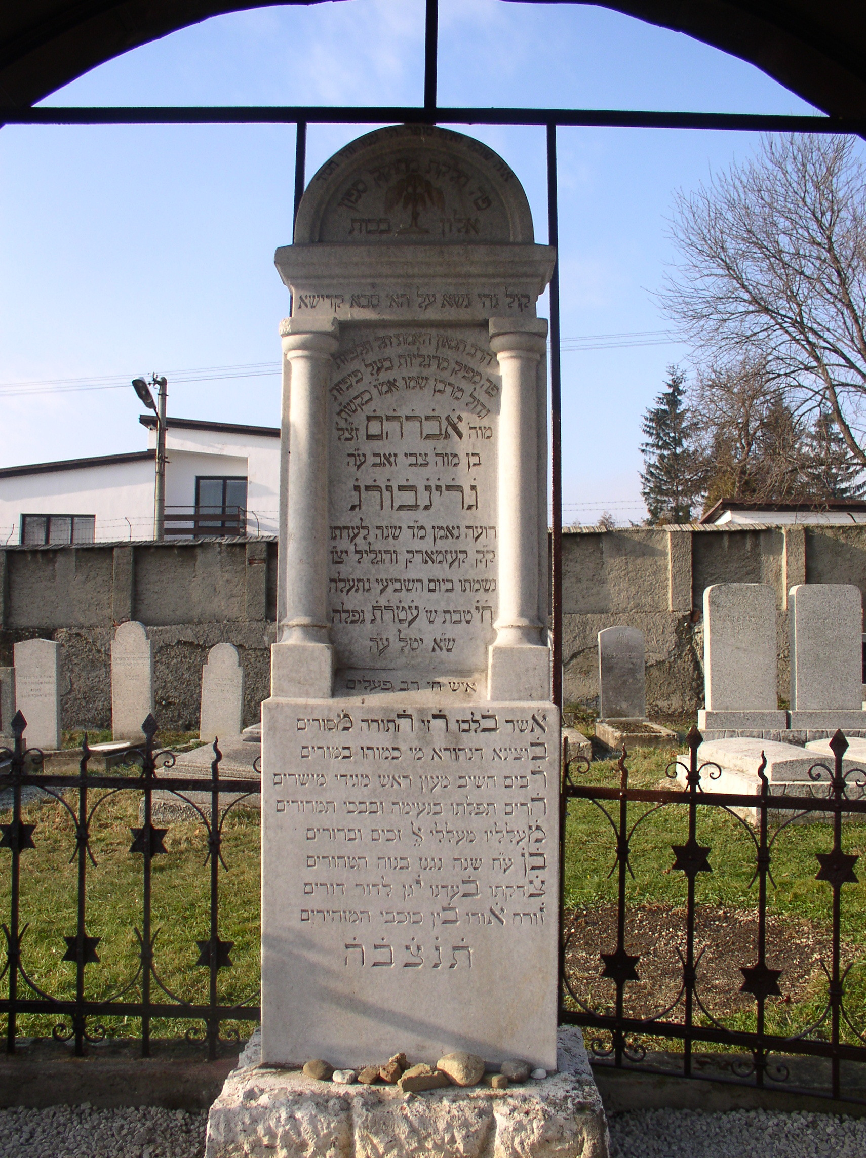 Tombstone of Abraham Gruenburg Kezmarok